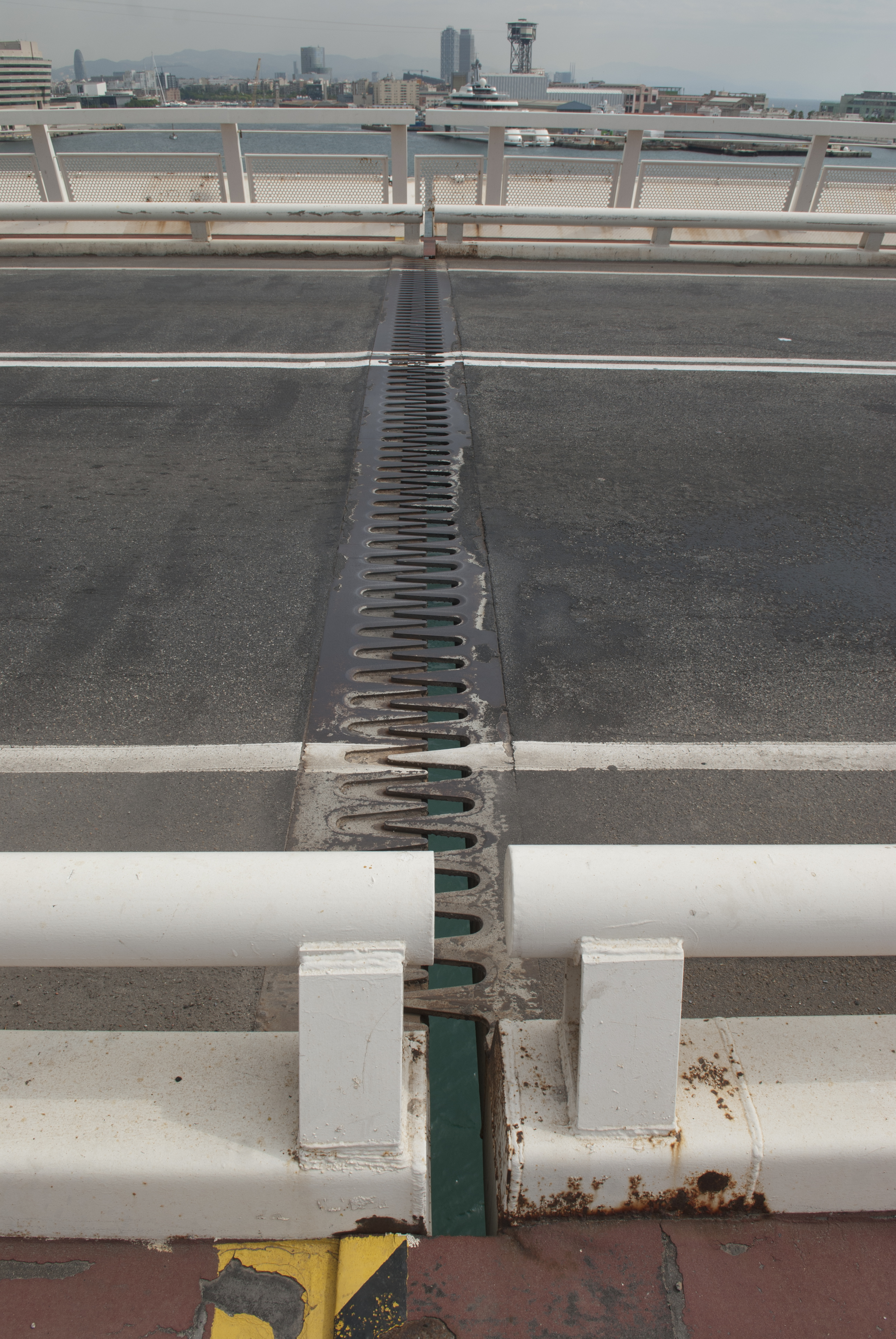 Photo of Pont Porta d'Europa.